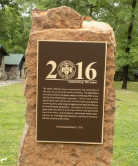 Plaque commemorating the 100th anniversary of Old Kia Kima